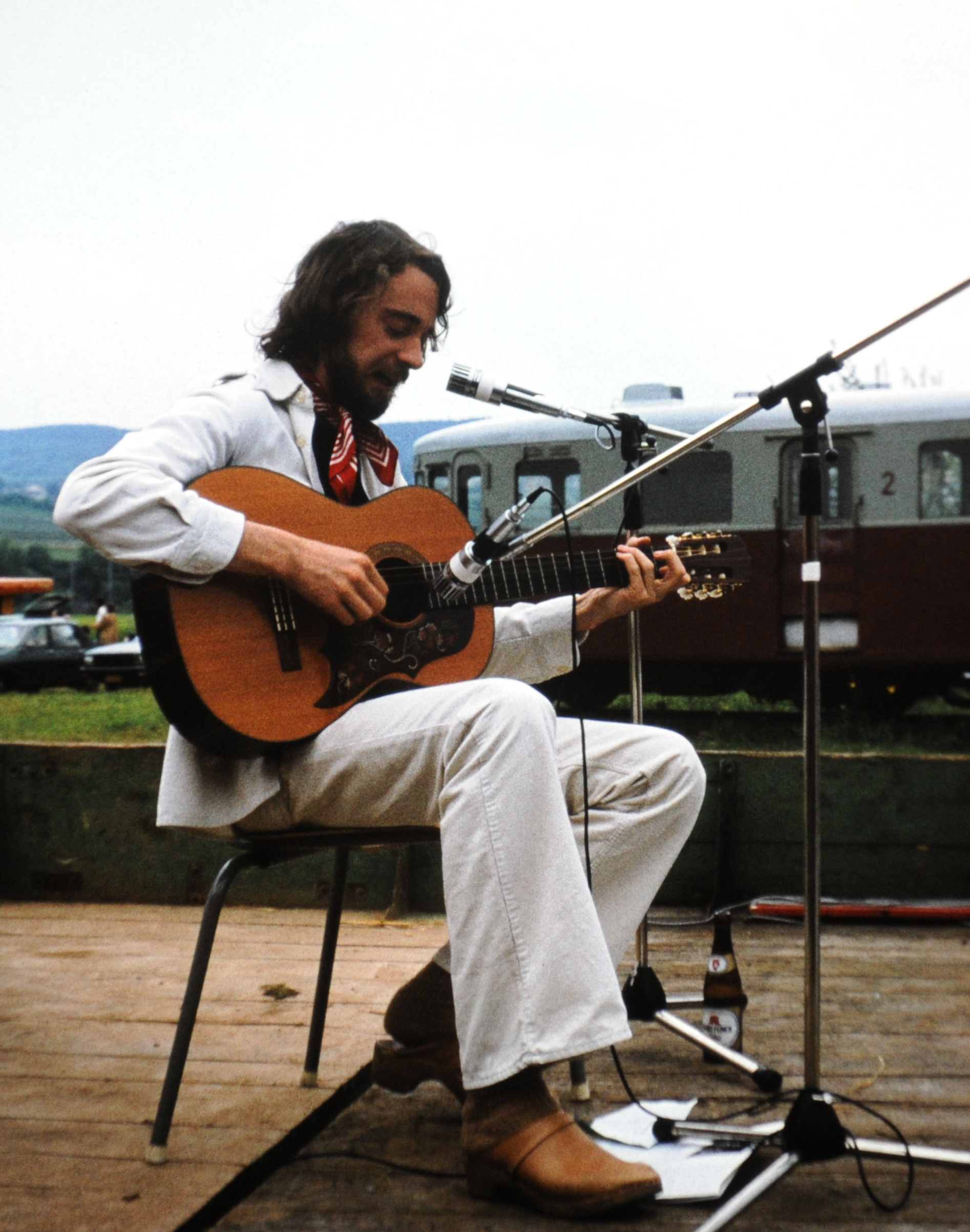 Guy Schons performing at an anti-nuclear rallye in Remerschen.